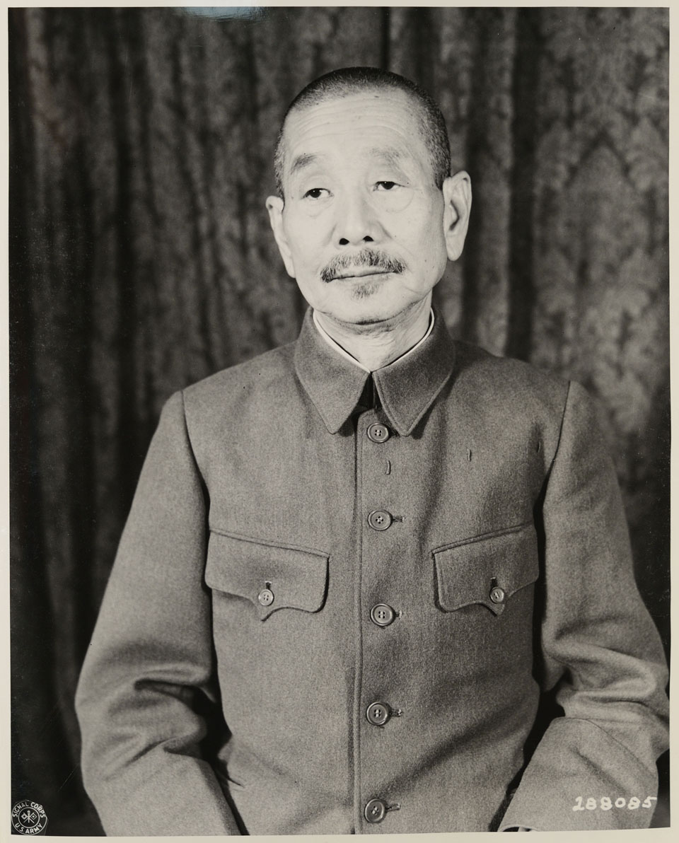 Iwane Matsui during the trial for war crimes at International Military Tribunal for the Far East